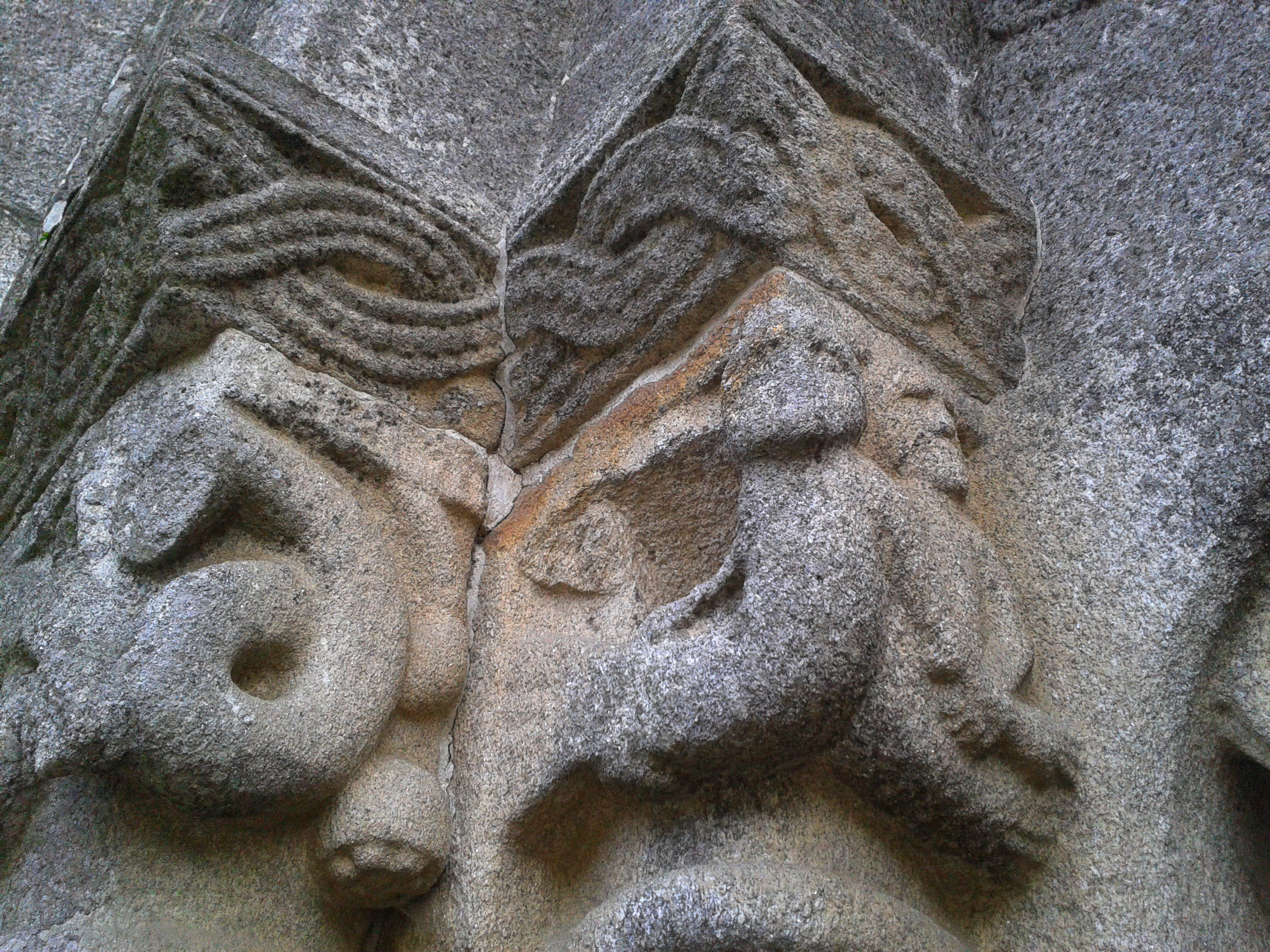 The Mermaid in the 12th century São Cristóvão de Rio Mau Monastery